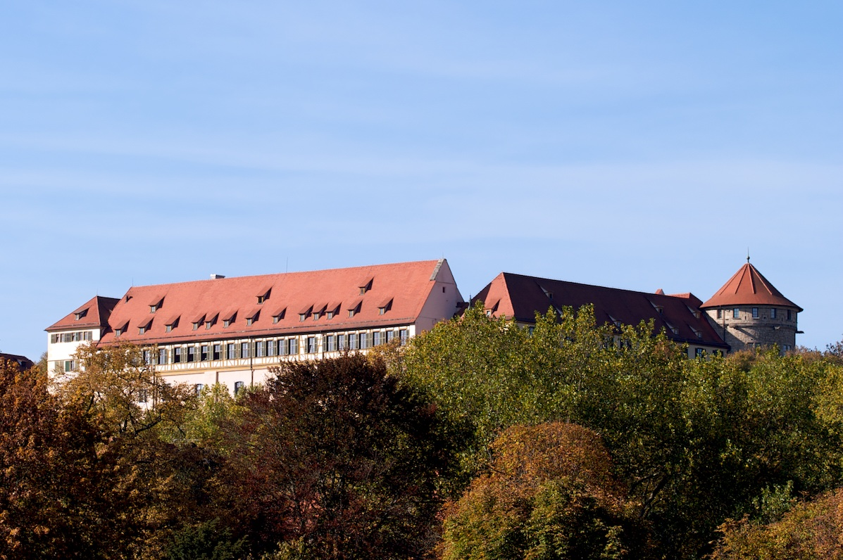 Castle Hohentübingen view from central bus station.